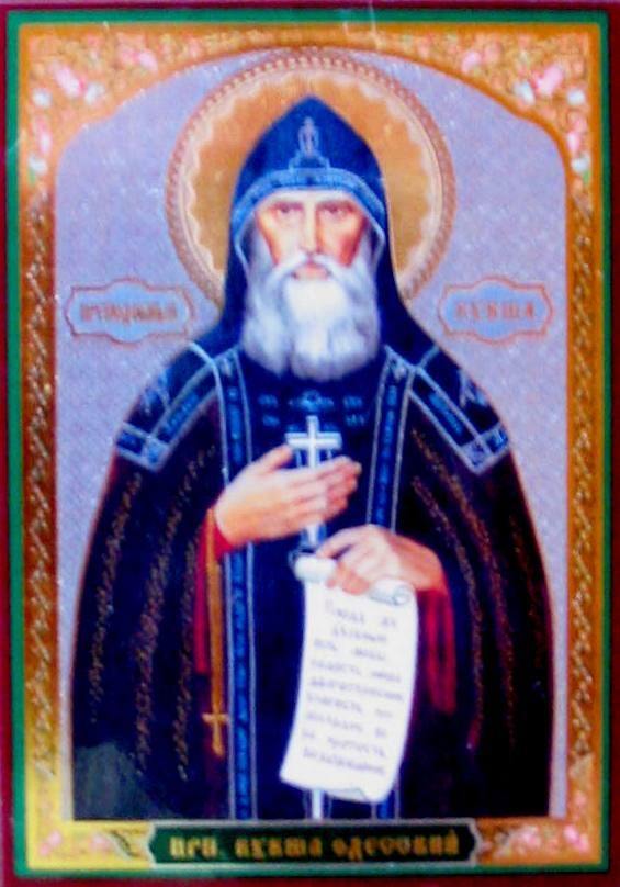 Plastic mini-icon of Saint Kuksha of Odessa - Ukrainian Orthodox monk, starets (elder), wonderworking saint of Soviet times.